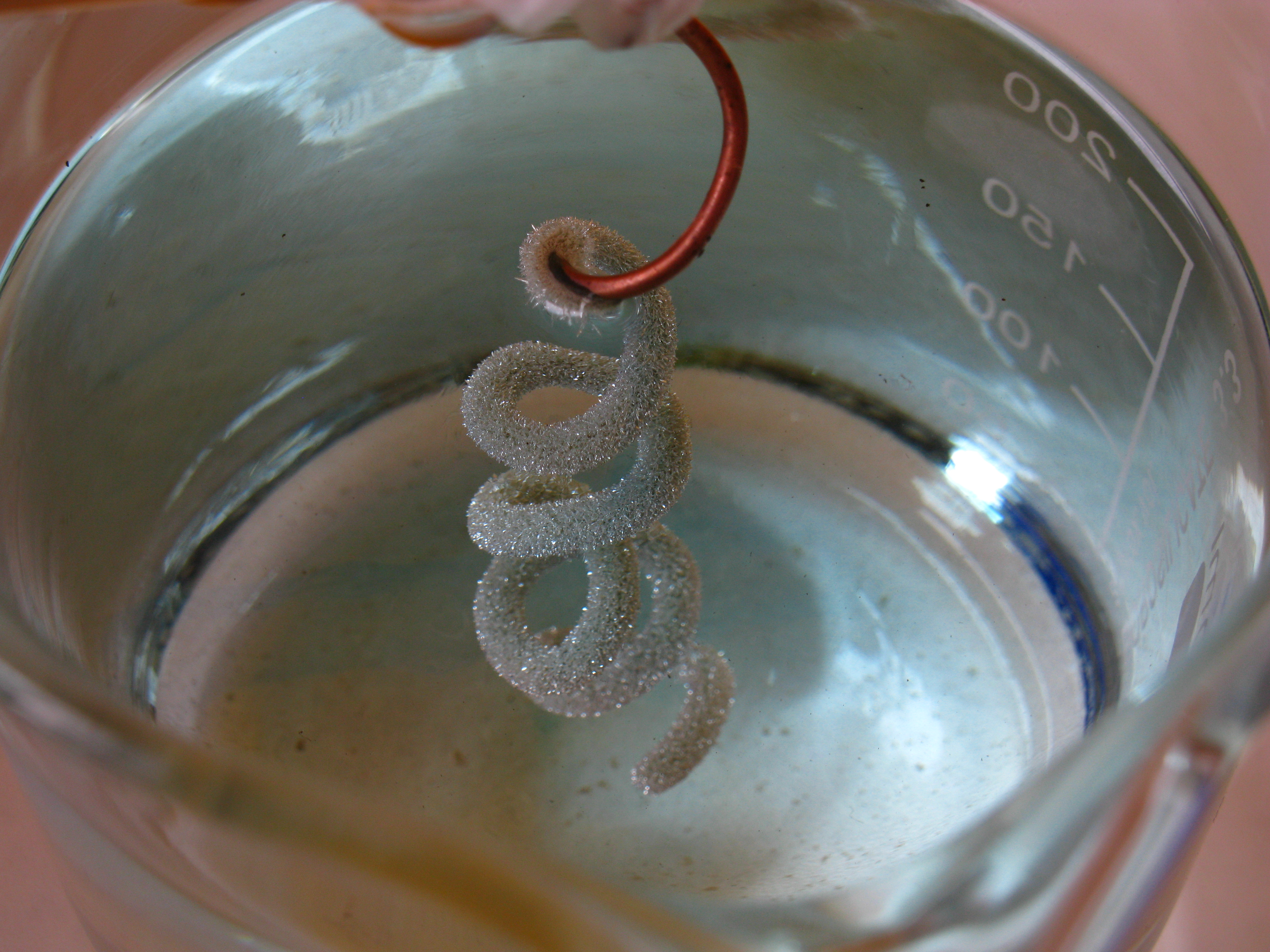 Diana's Tree produced with a copper wire in a silver nitrate solution in a beaker, at the beginning of the reaction. One can see that the solution is beginning to turn blue, due to Cu²⁺ ions beginning to appear.